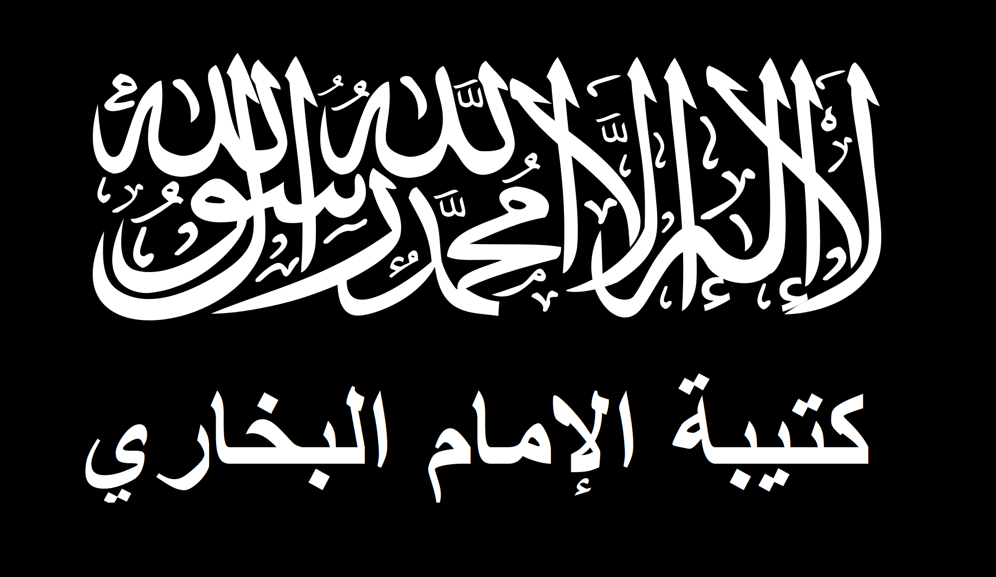 Flag of the group